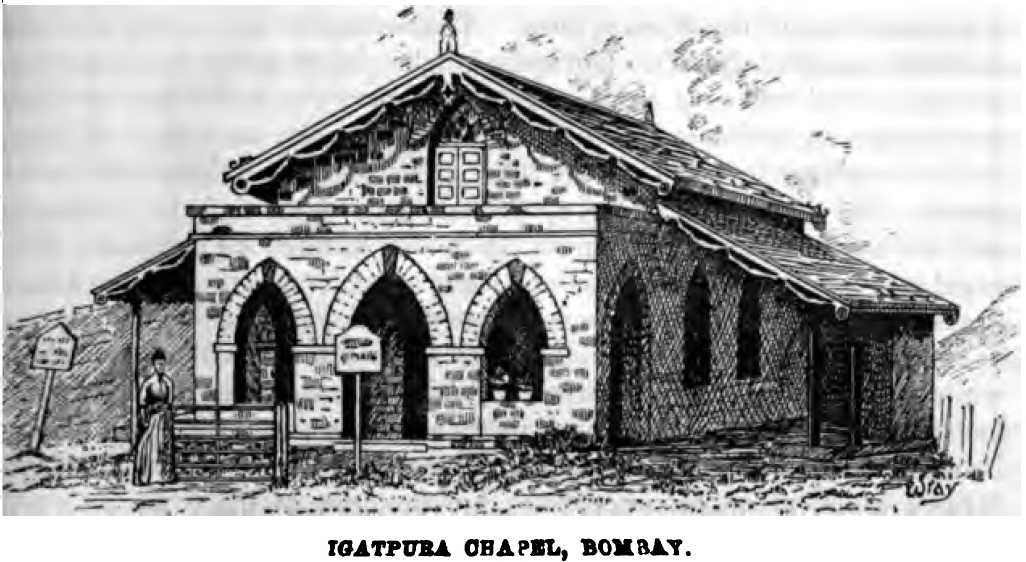 Igatpura Chapel, Bombay (Clutterbuck, p.199), A Sketch of the Mission in Bombay, Rev, G W Clutterbuck, Wesleyan-Methodist Magazine, 1889